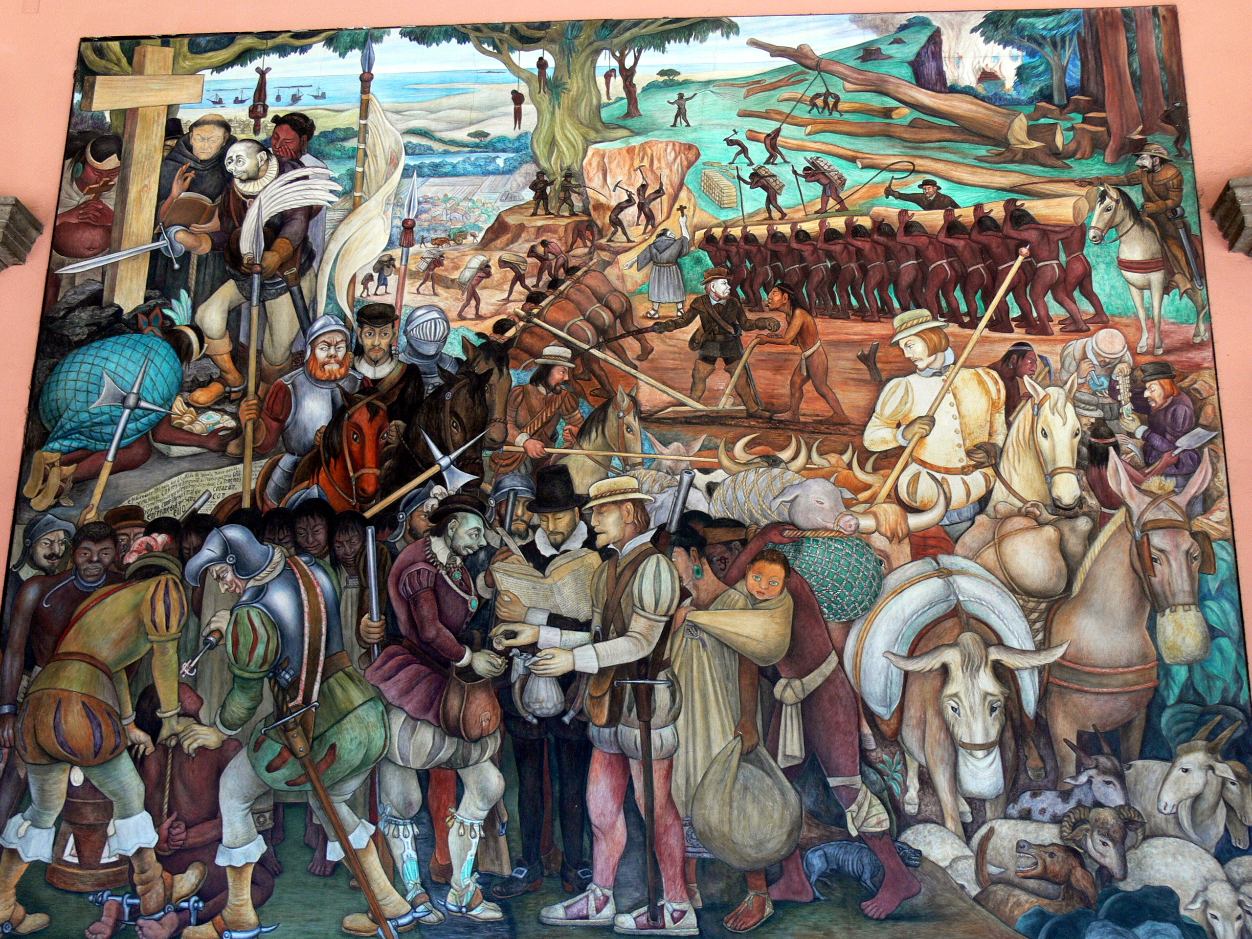 Mexico City - Palacio Nacional. Mural (1929-1945) by Diego Rivera: Exploitation of Mexico by Spanish Conquistadors